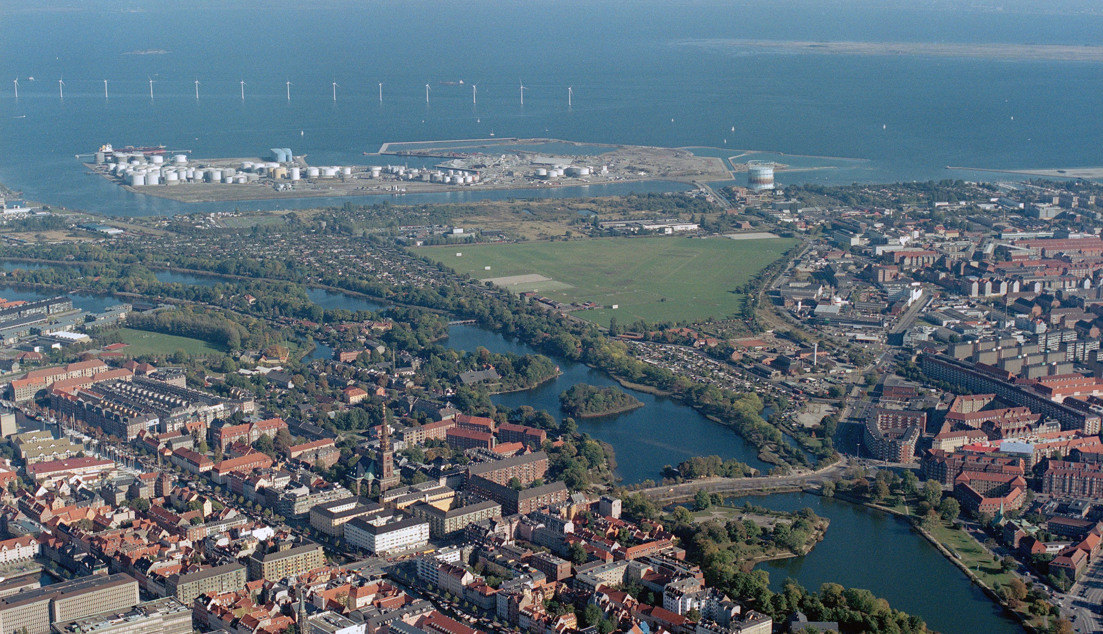 Aerial photo of Kløvermarken seen in direction north-east. Seen from Christianshavn towards Prøvestenen and Øresund.